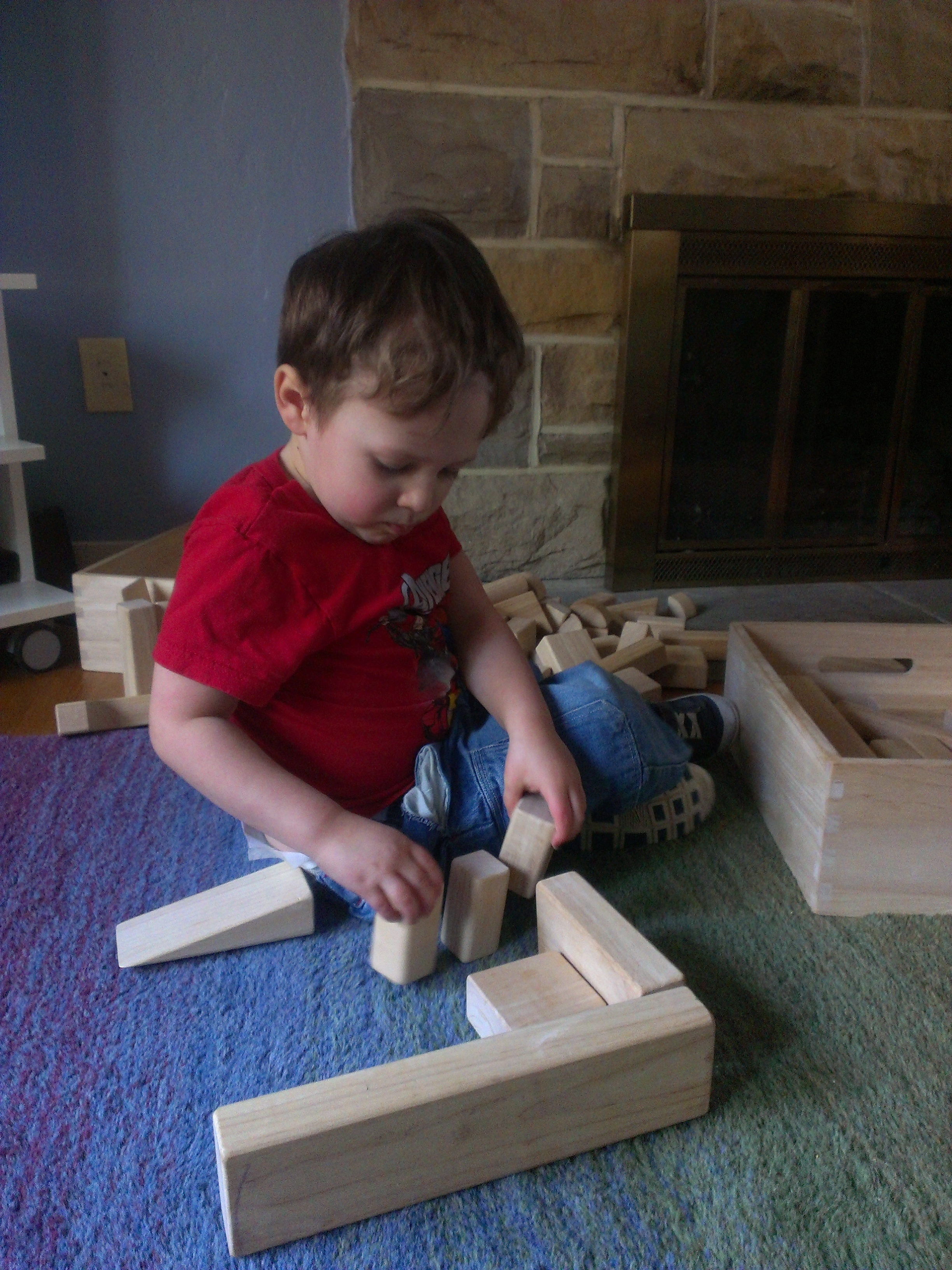 A young boy, age 3, playing with wooden unit blocks